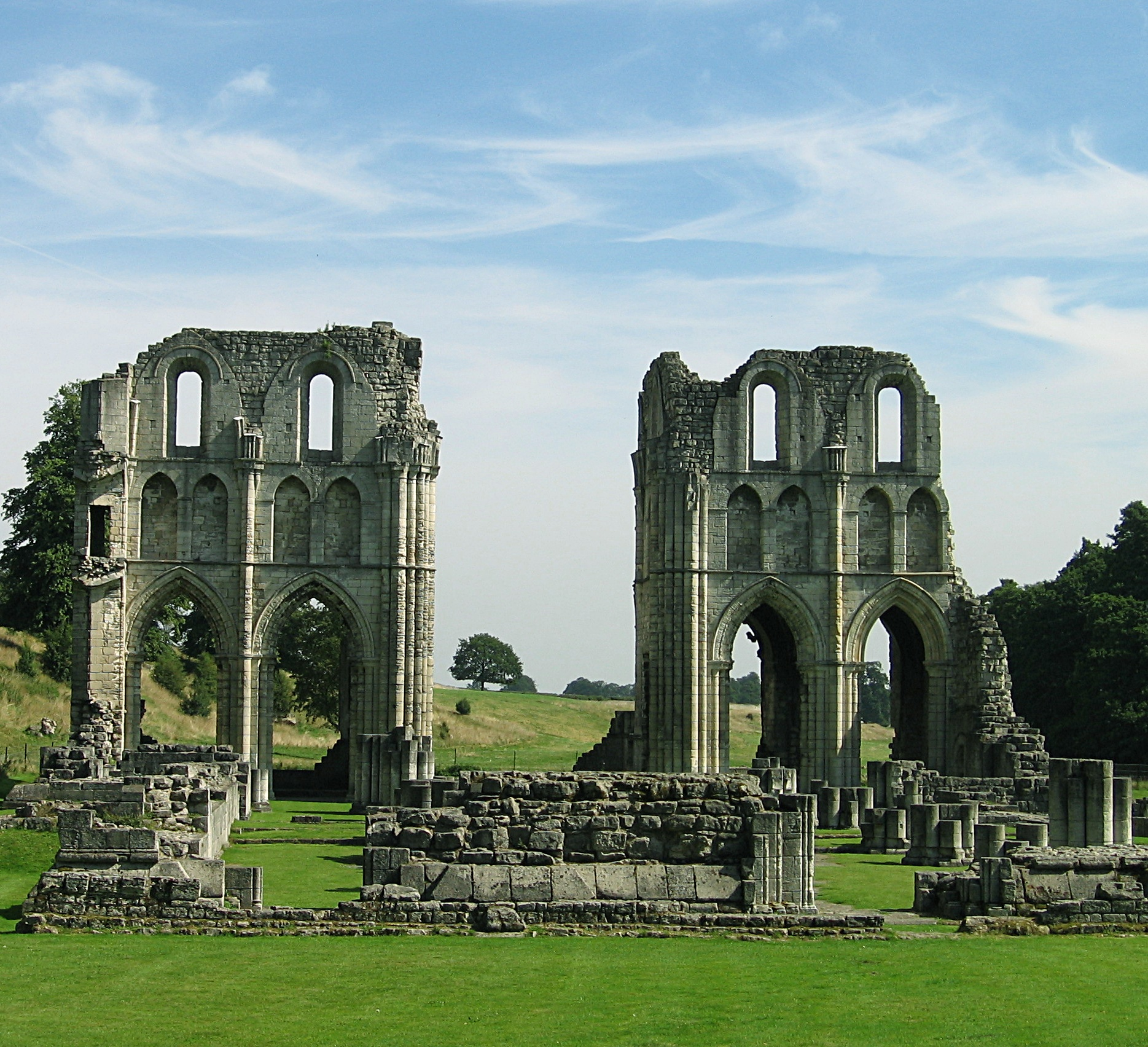 Photographed by Bala Amavasai using a Canon A520 digital camera and post-processed using The Gimp.